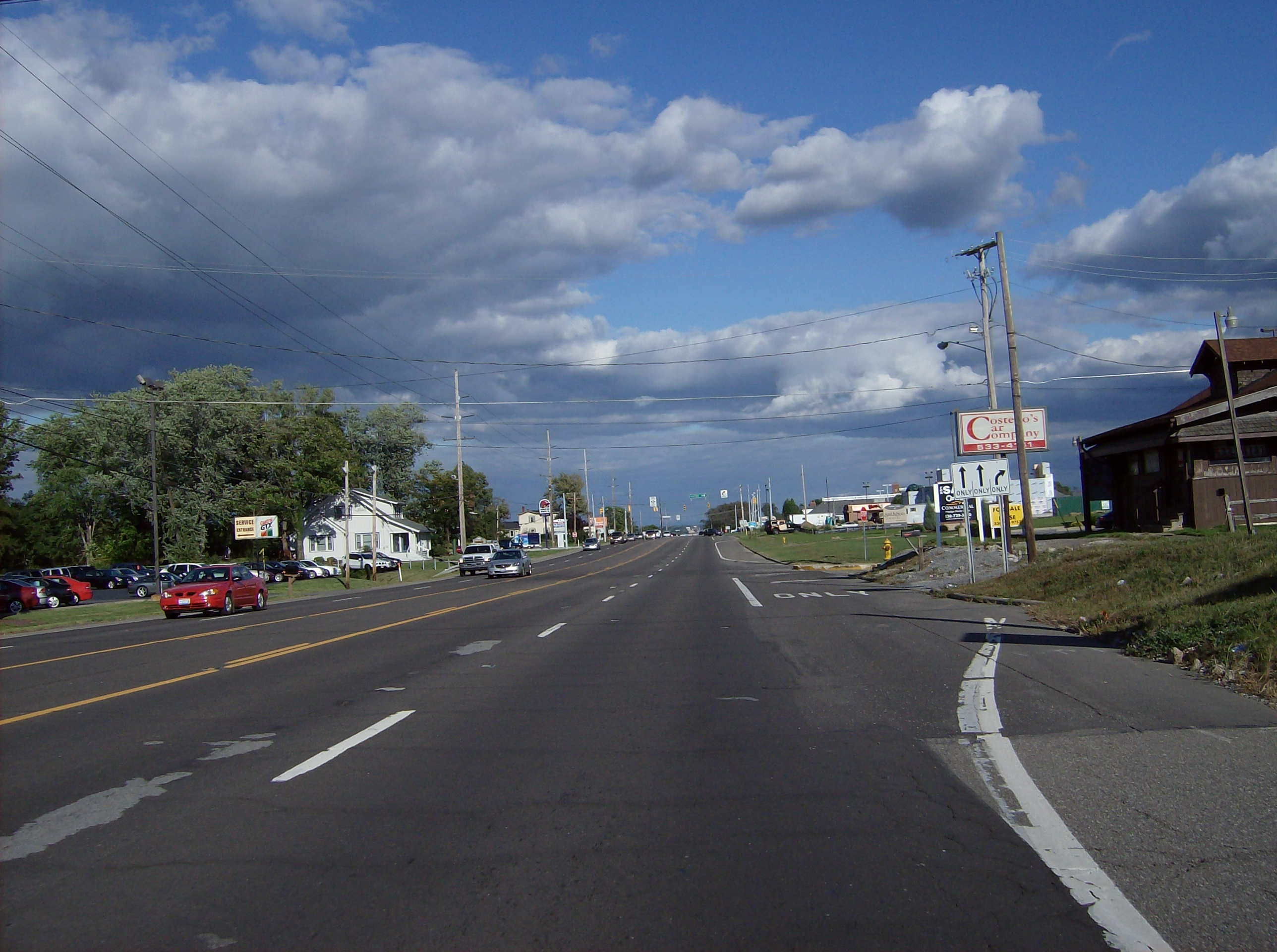 Along westbound U.S. Route 224 in eastern Canfield Township, Mahoning County, Ohio, United States, near Youngstown.